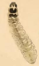 Stainton’s Natural History of the Tineina (1855–1873): Cauchas fibulella